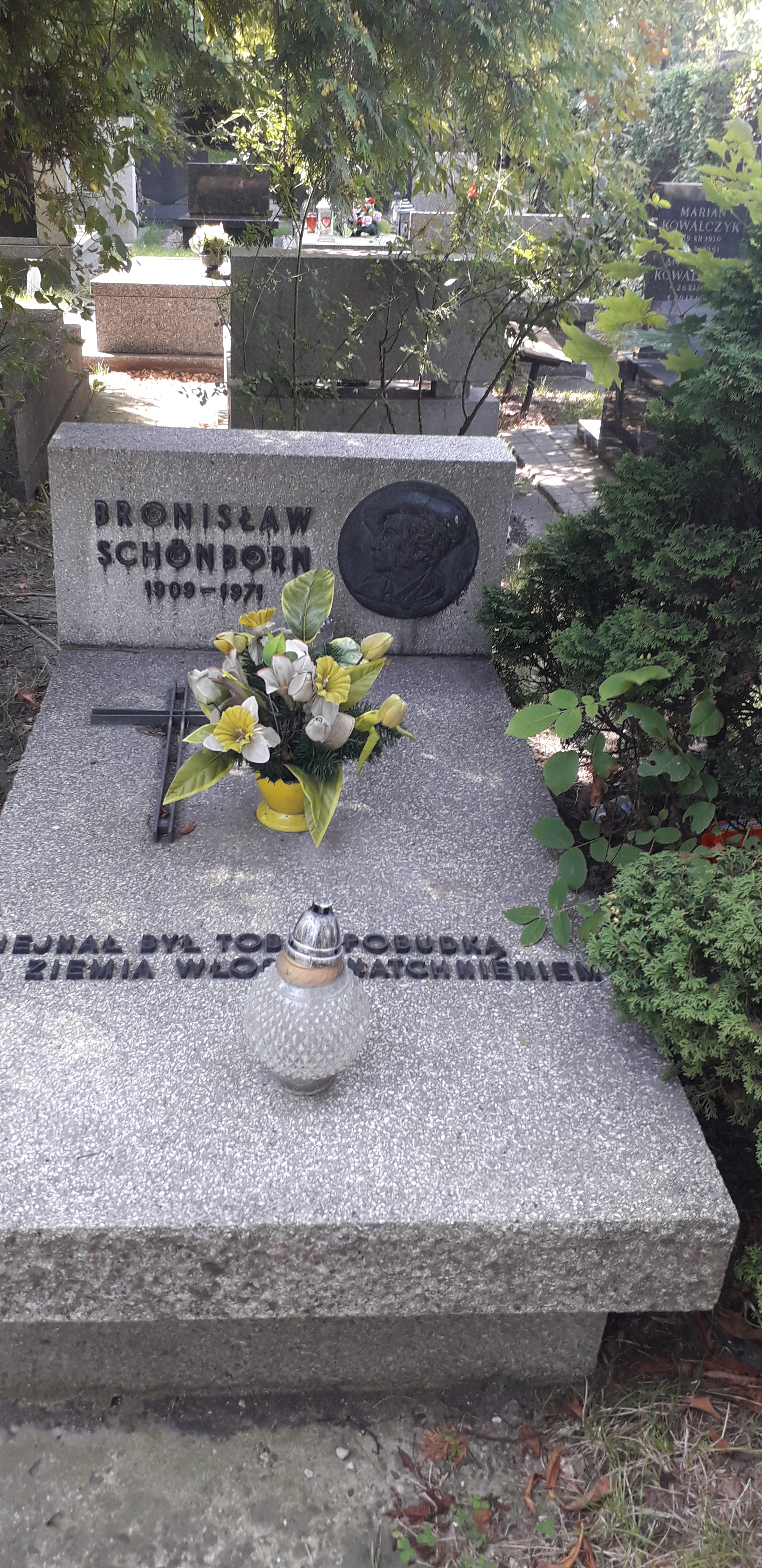 Bronislaw Schonborn grave